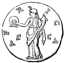 738 woodcuts illustrating the work A Dictionary of Roman Coins, Republican and Imperial (1889). To identify a coin please look at the filename to identify a page number, and check the Dictionary on numiswiki